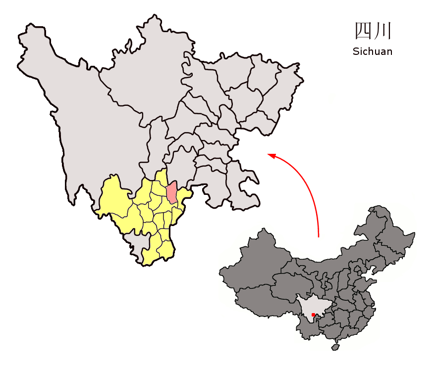 Location of Meigu County (pink) and Liangshan Prefecture (yellow) within Sichuan province of China Map drawn in september 2007 using various sources, mainly : Sichuan province administrative regions GIS data: 1:1M, County level, 1990 Sichuan Counties map from